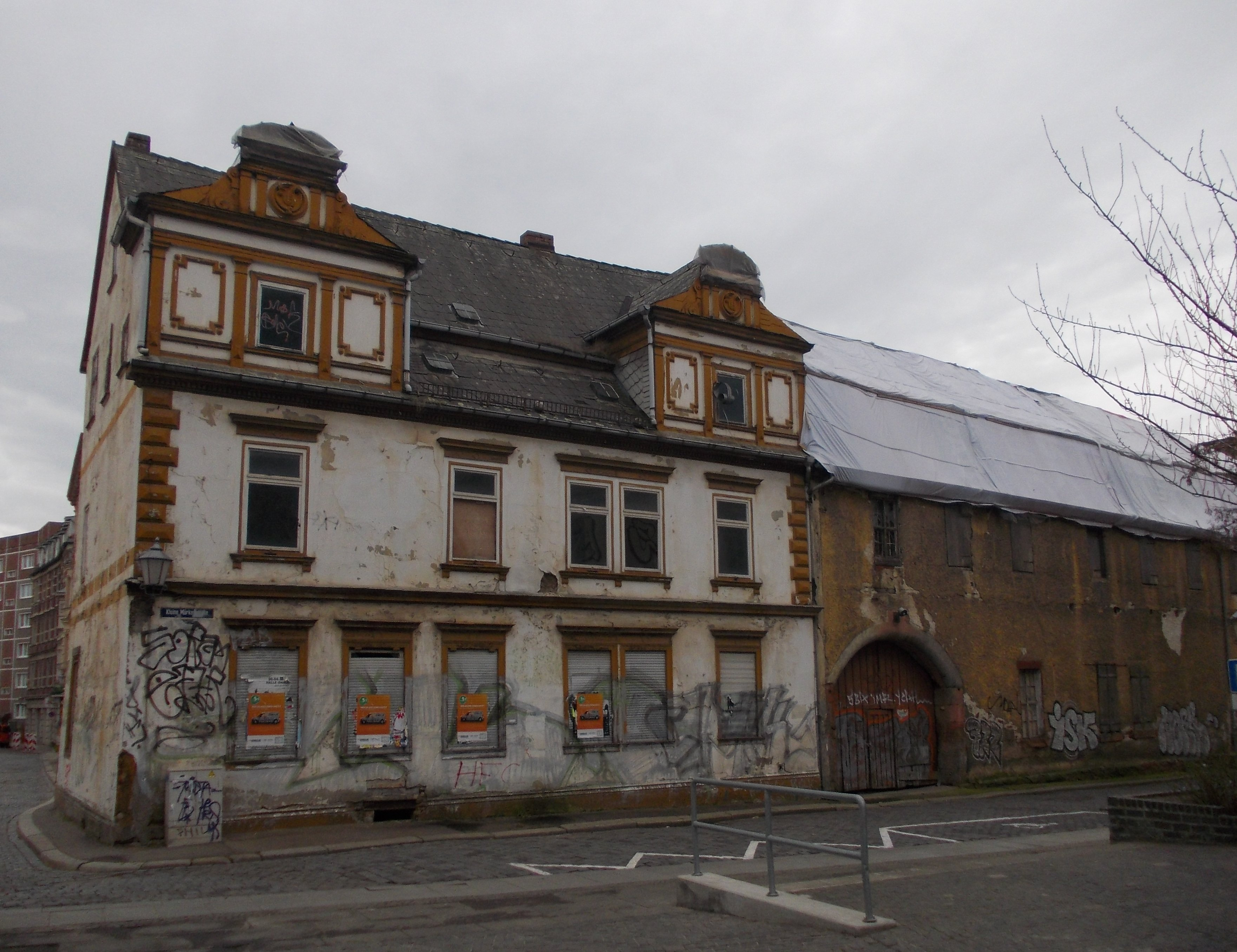 Kleine Märkerstrasse/Christian-Wolff-Strasse in Halle/Saale (Saxony-Anhalt)